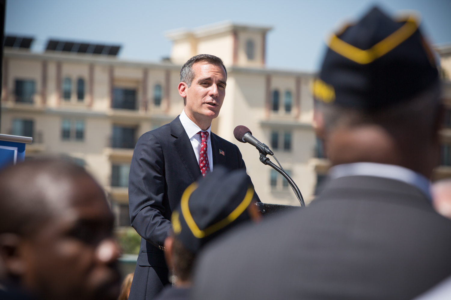 Mayor Garcetti hosts a press conference to celebrate the one year anniversary of the launch of the “10,000 Strong” Veteran Hiring Initiative.